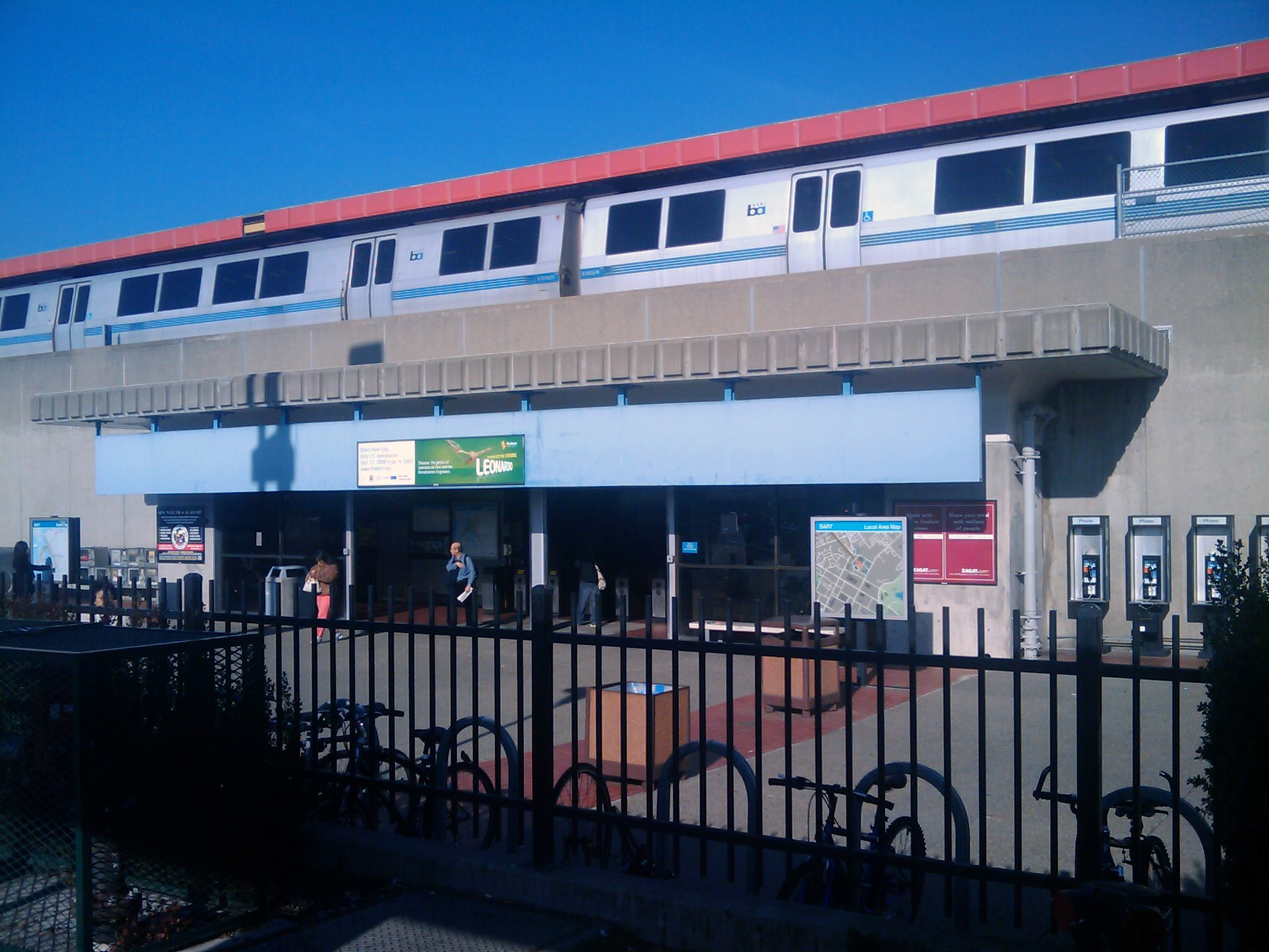 The Fremont BART station, in Fremont, California.